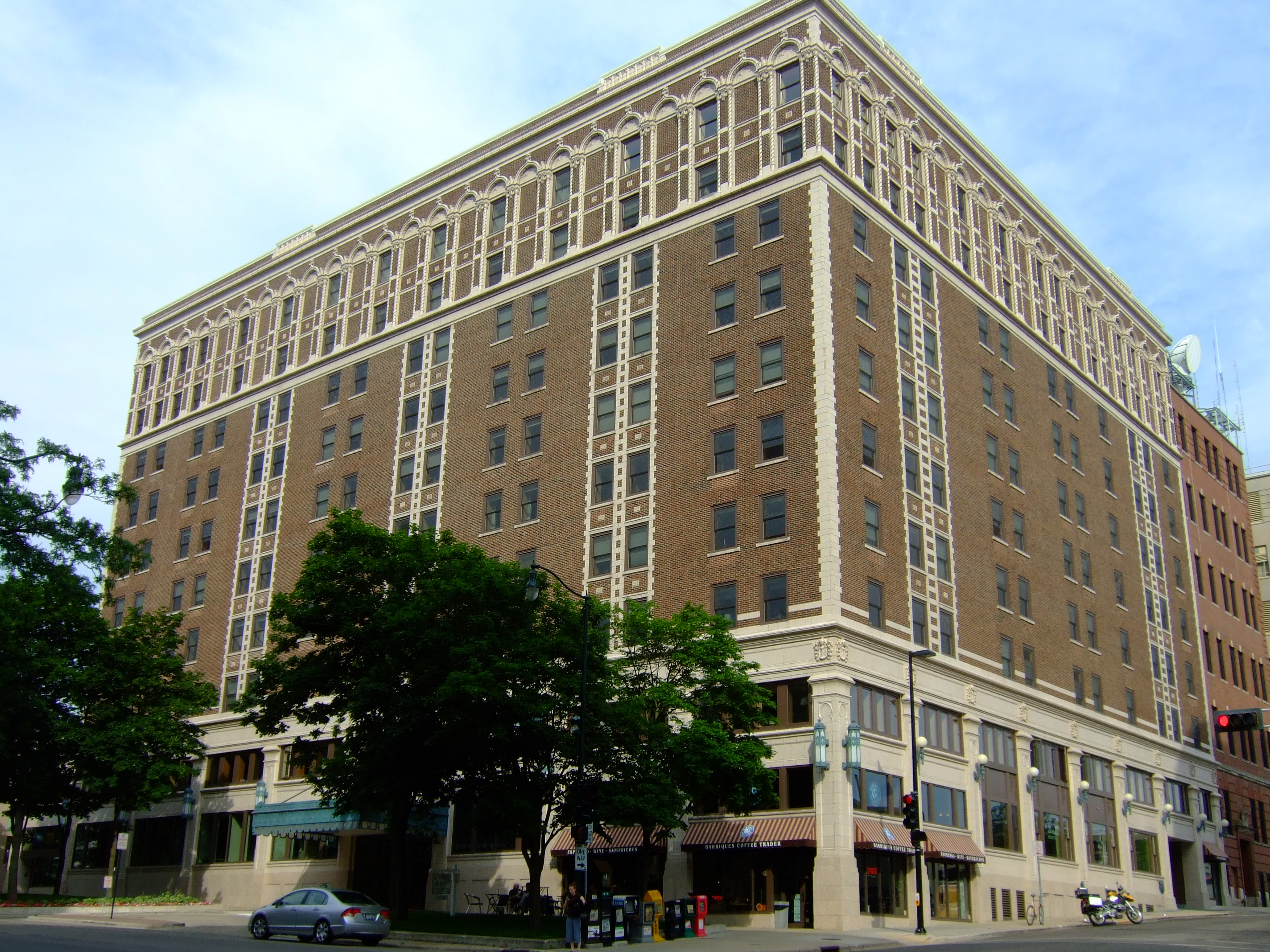 Located at 119-123 W. Washington Avenue (at the intersection with Fairchild Street) in Madison, Wisconsin, the 10-story Hotel Loraine was designed by Herbert W. Tullgren and constructed between 1923 and 1925 for Milwaukee hotel and insurance magnate Walter Schroeder. It was named after Schroeder's niece. The Beaux Arts design combines Tudor and Mediterranean revival elements. Built at a cost of $1,100,000, the Loraine was Madison's most expensive commercial construction project to date, and for many years it was the city's leading hotel. Later it housed the State Departments of Justice and Commerce. It was added to the National Register of Historic Places in 2002, and in 2003-04 it was redeveloped as a residential condominium.